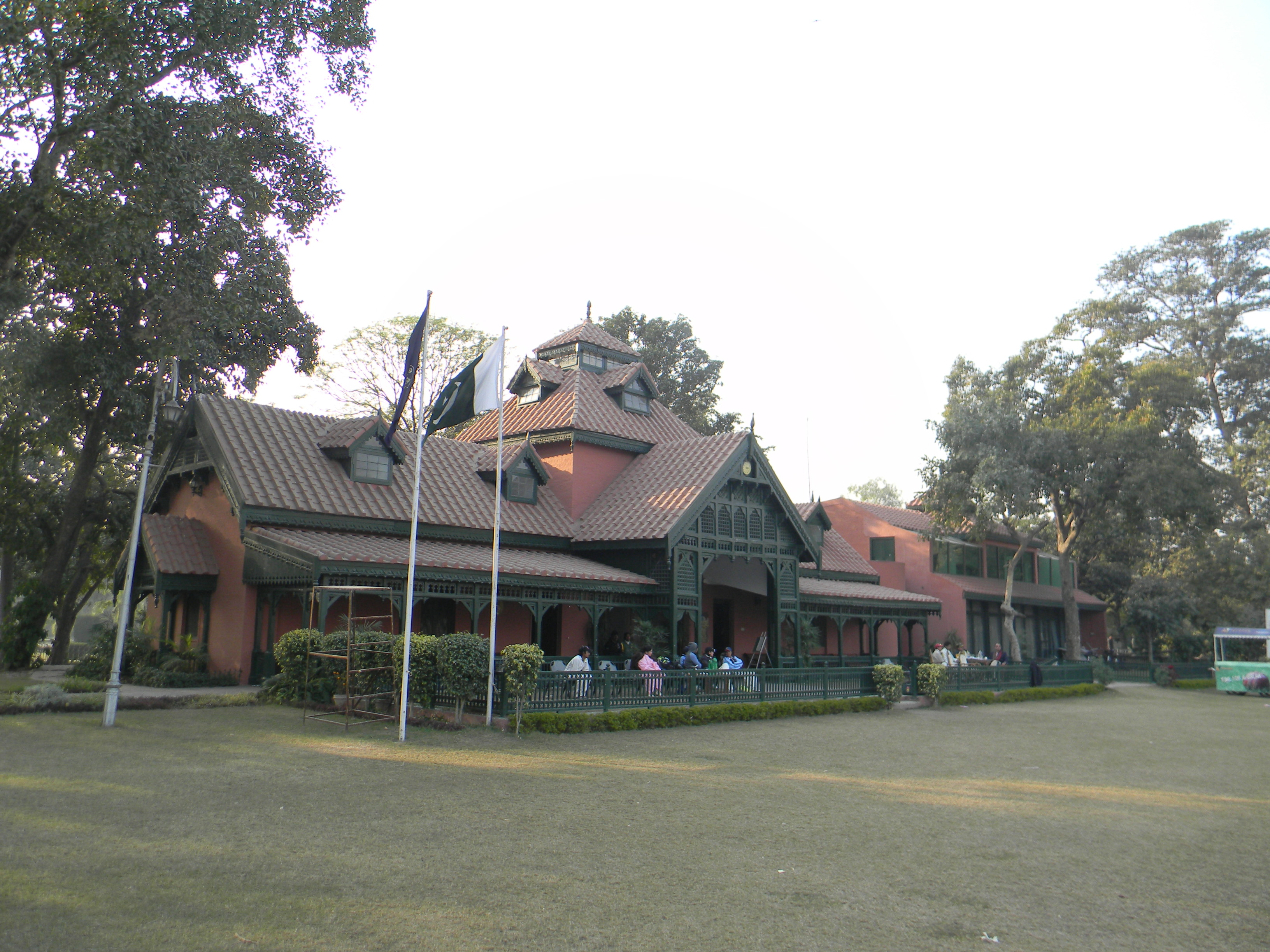 Lahore Gymkhana for Punjabi Wikipedia